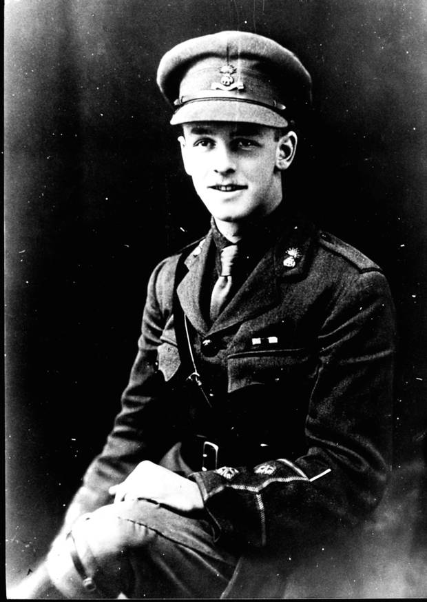 Portrait photograph of Irish Soldier Emmet Dalton dressed in his British Army uniform, taken circa. 1914-1918.